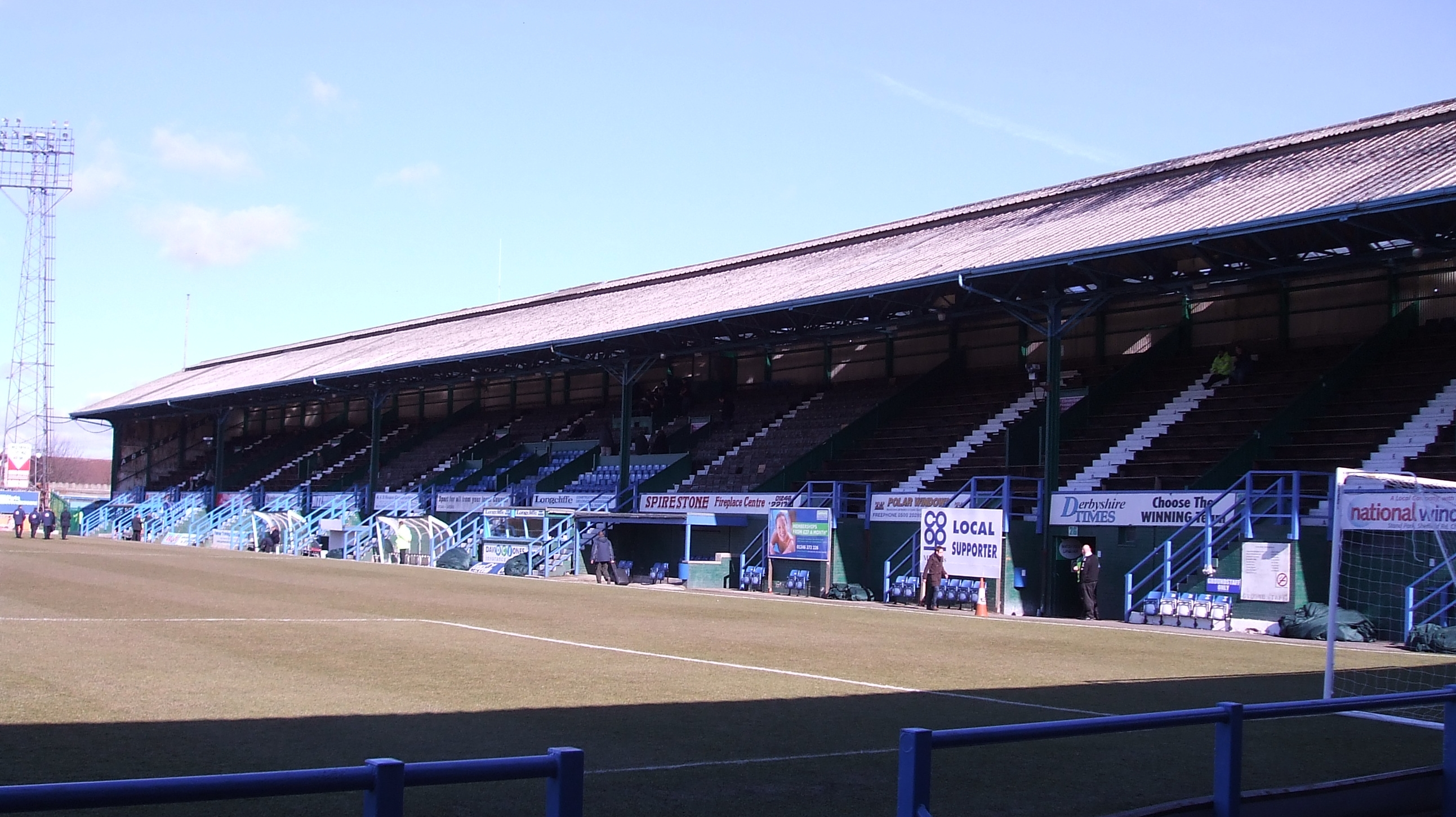 View of the Main Stand taken from The Kop at Chesterfield FC's former ground, Saltergate. The Family Section of the stand is at the rightmost end; the away section of the stand is far left.